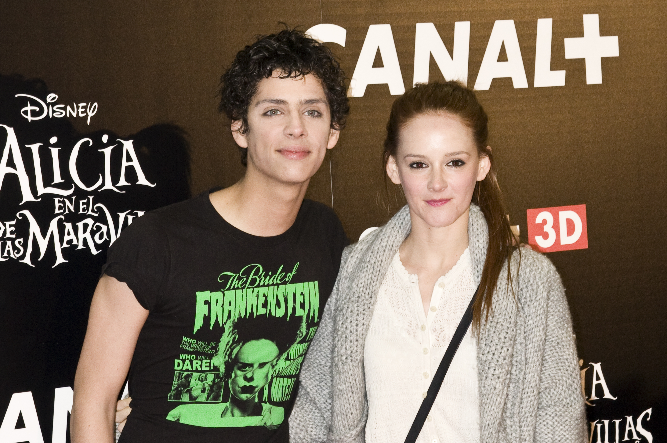 Eduardo Casanova and Ana Polvorosa, Spanish actors at the photocall of Alice in Wonderland in 2010.